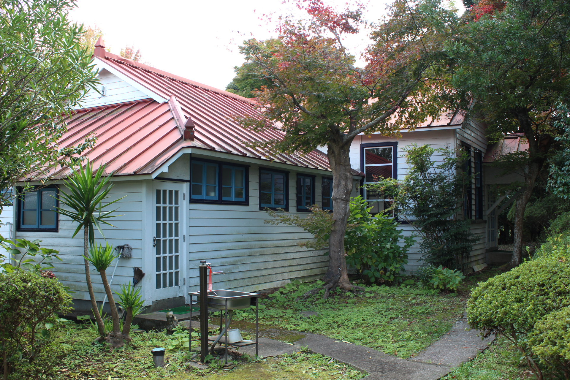 Yasushi Oinoue Library in Izu, Shizuoka Prefecture, Japan. Kyoho grapes was borne in nearby farm.